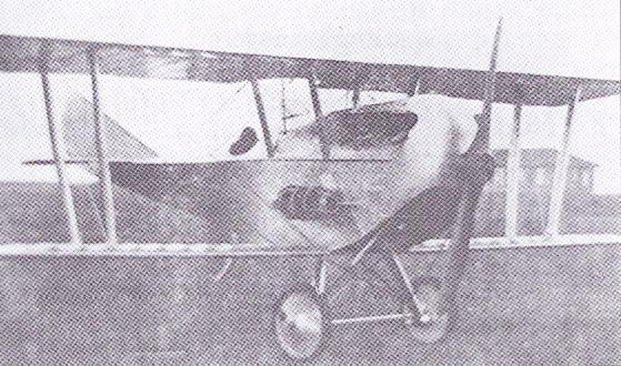 Italian Gabardini G.9bis fighter